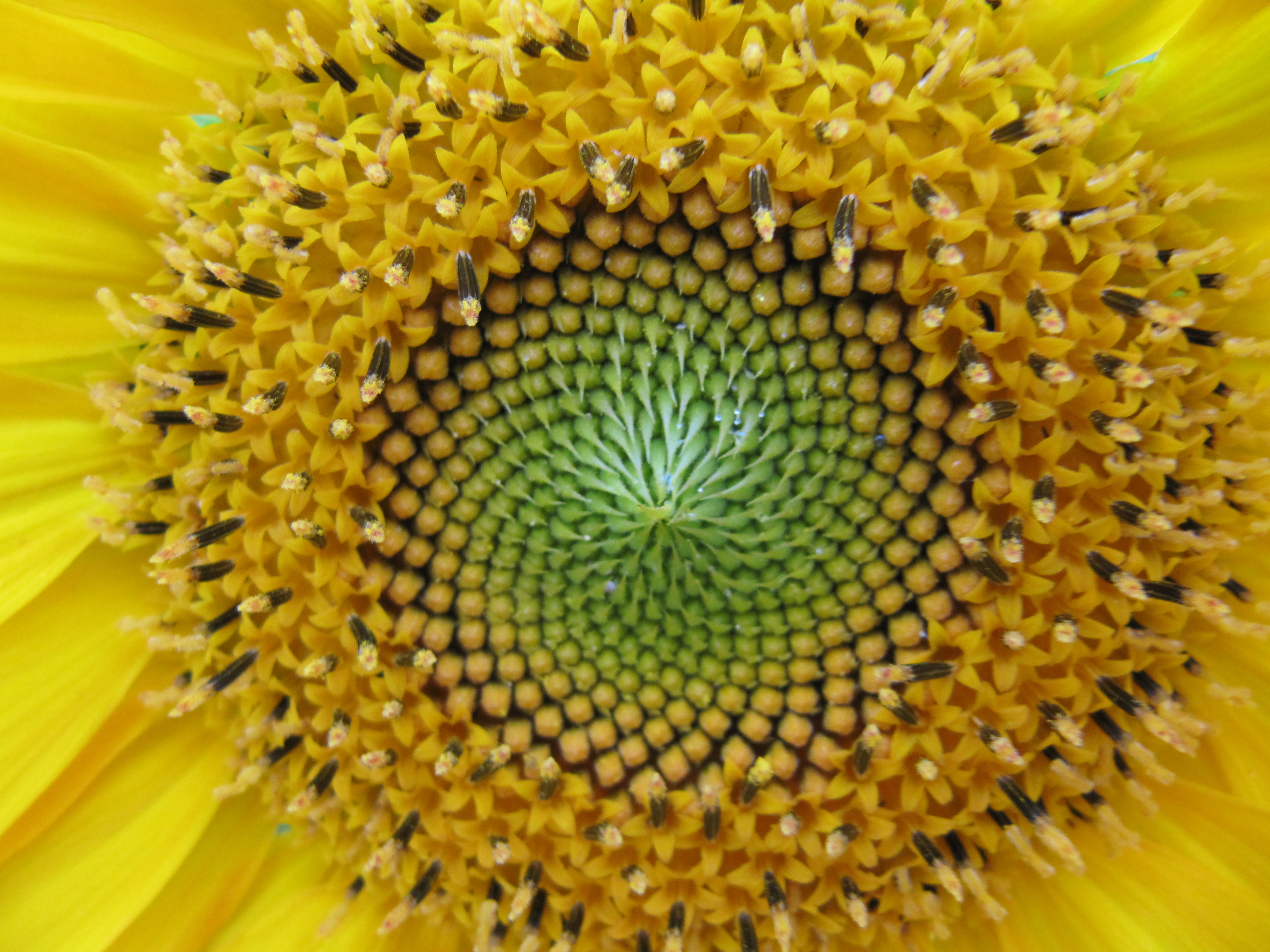 Center of flower